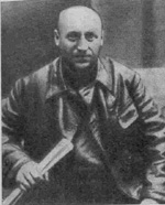 Ksenofonto, Ivan Ksenofontovich